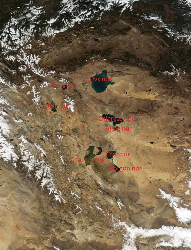 Great Lakes Depression, Mongolia and Russia, Terra/MODIS, 2001-10-15, resolution 250 m